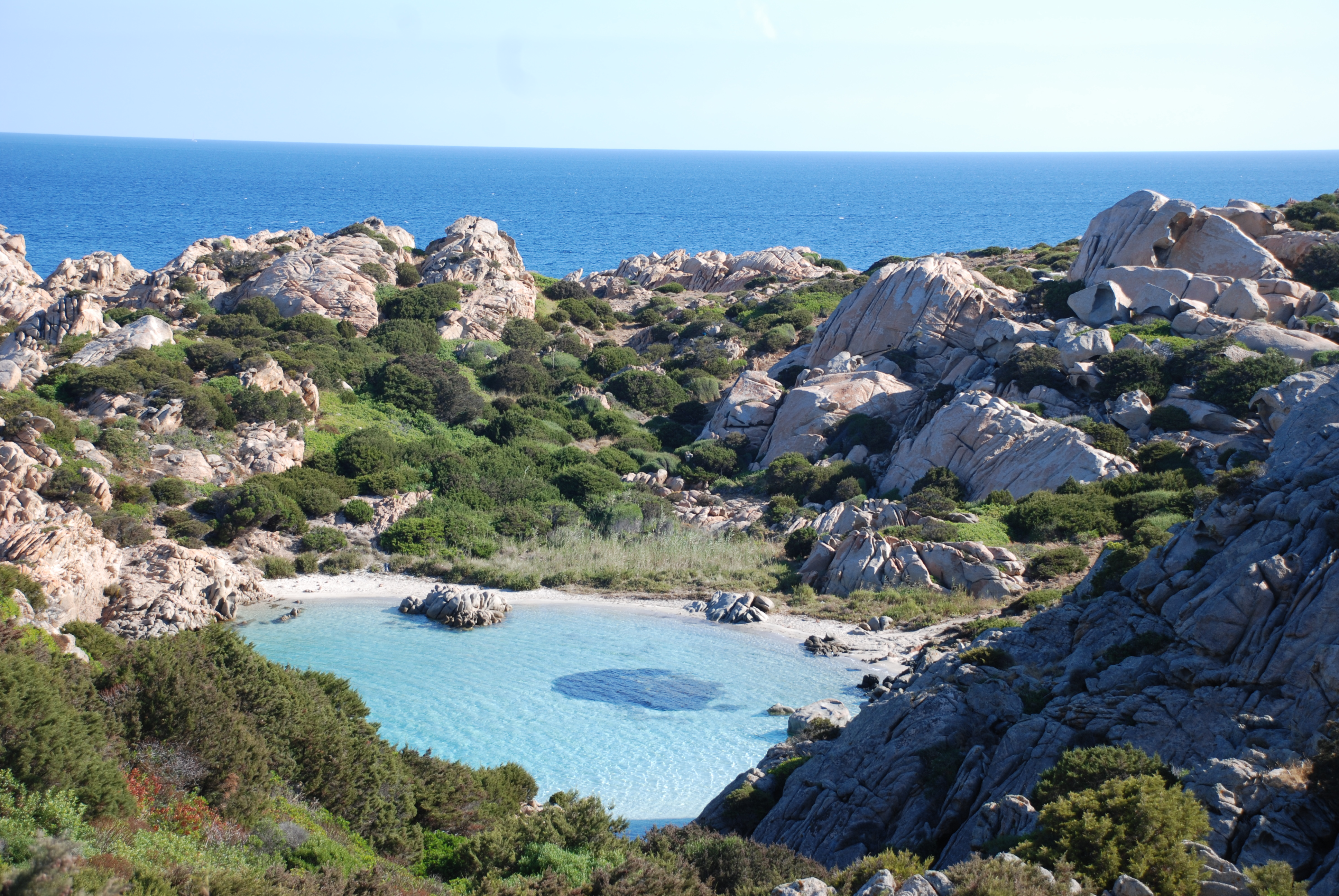 This is a photo of a monument which is part of cultural heritage of Italy.